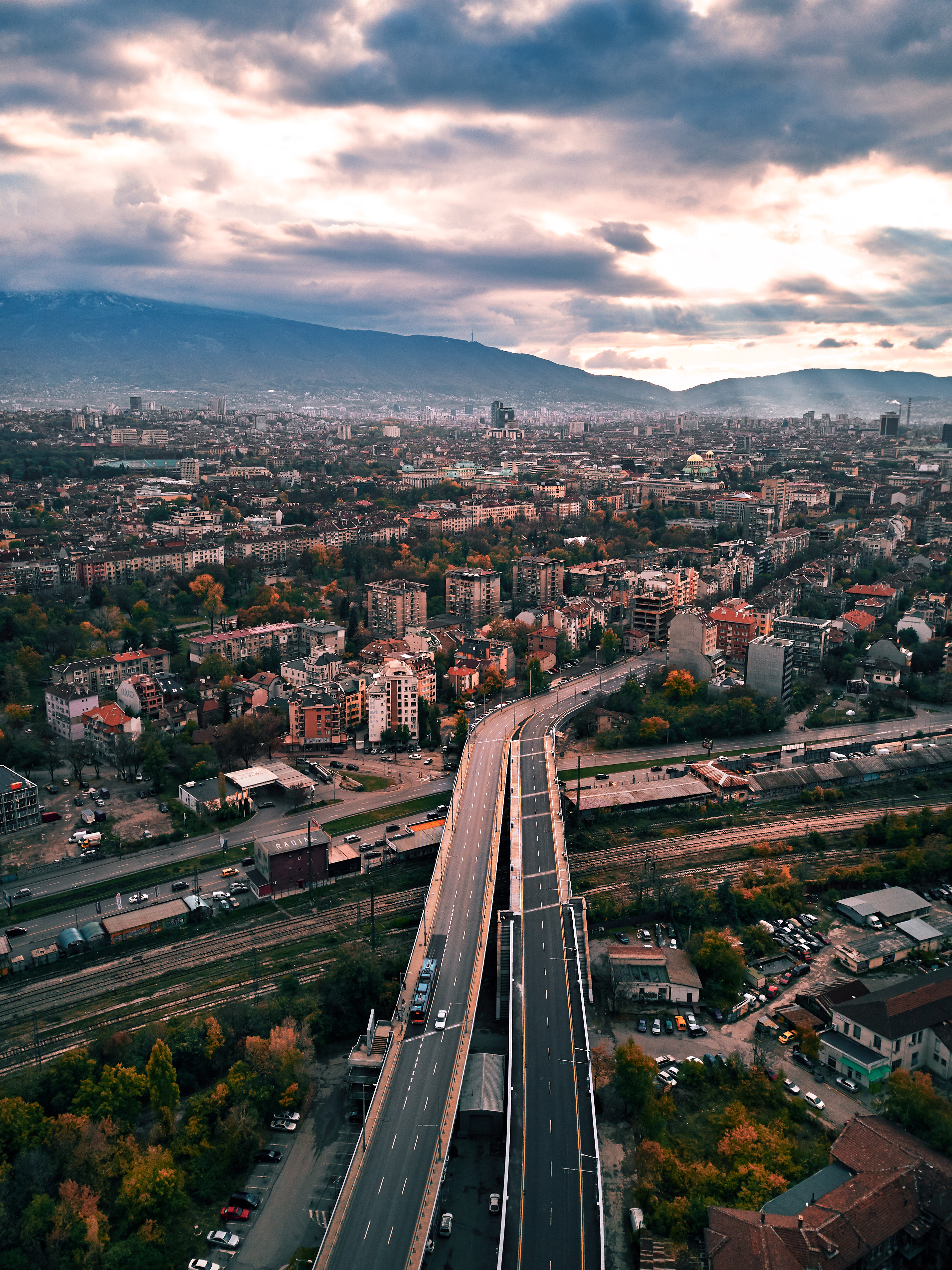 Sofia